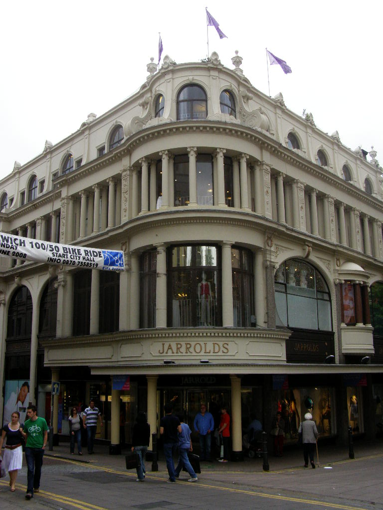 Jarrolds, a department store located in Norwich